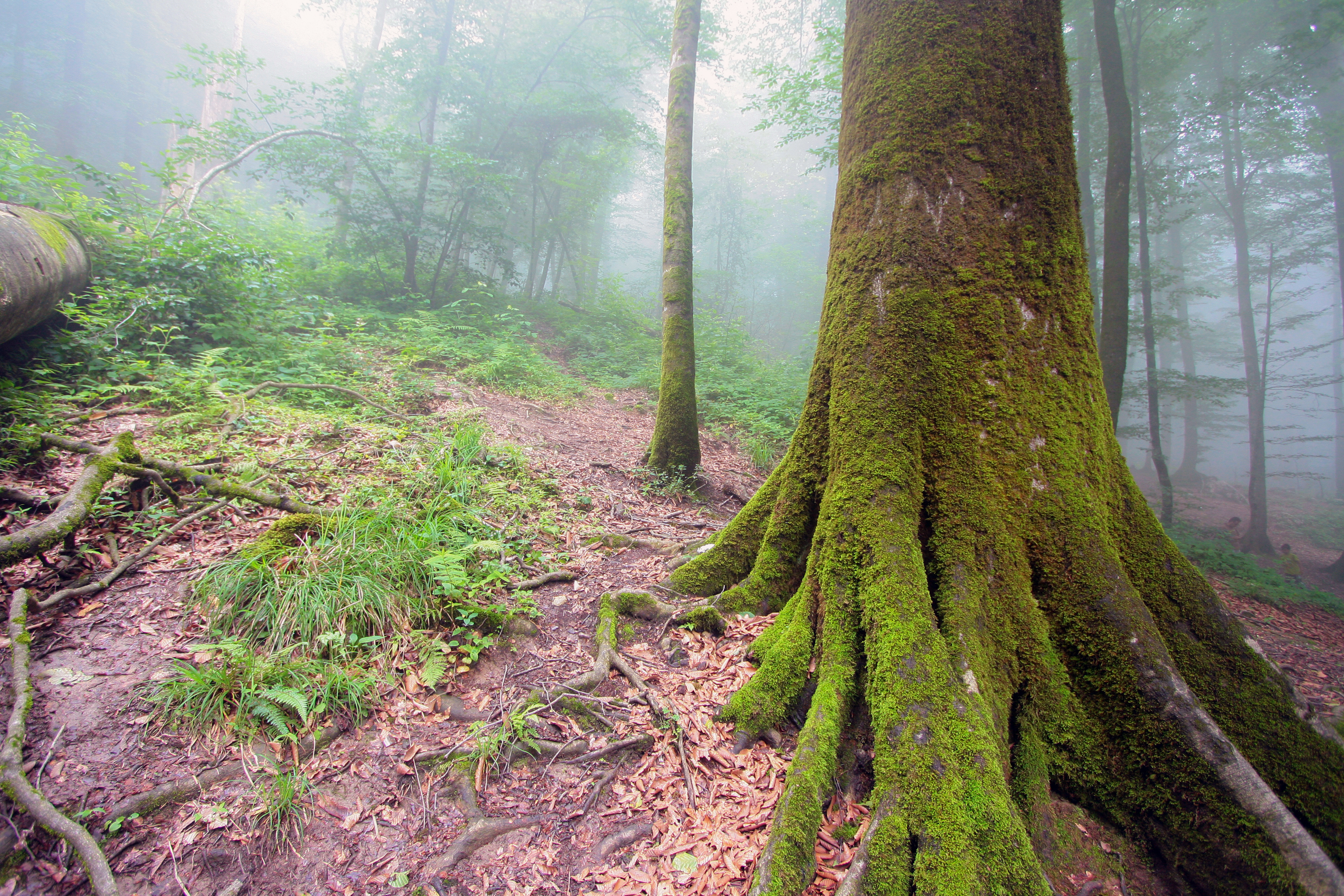 Shahrak-e Namak Abrud (Persian: شهرك نمك ابرود, also Romanized as Shahrak-e Namak Ābrūd; also known as Namak Abrood, Namak Ābrūd, Namak Ābrūd Sar, and Namakrūd Sar)is a village in Kelarestaq-e Gharbi Rural District, in the Central District of Chalus County, Mazandaran Province, Iran. At the 2006 census, its population was 354, in 71 families.